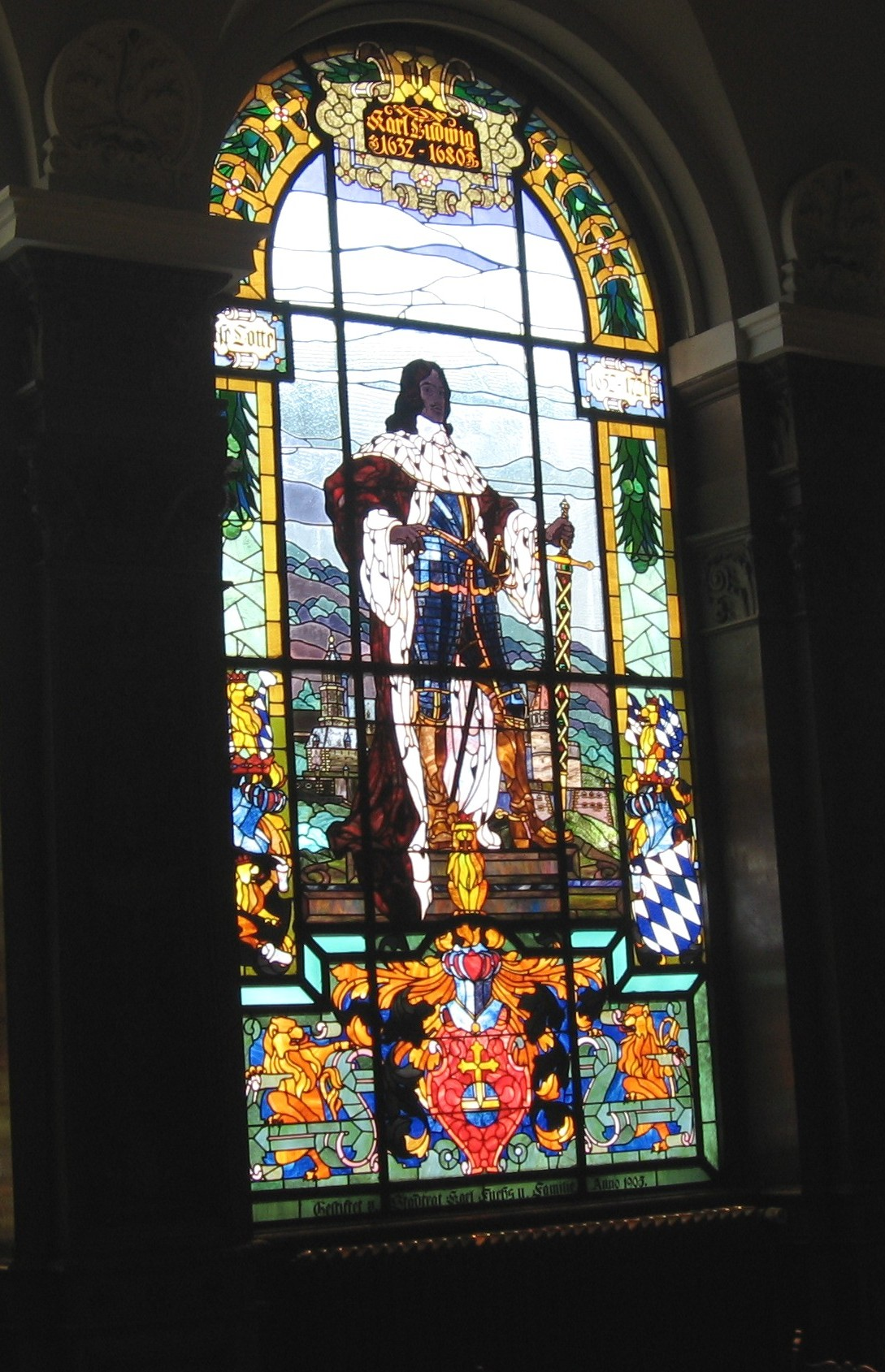 (Sovereign Karl-Ludwig I von der Pfalz)